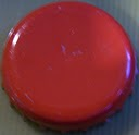 Tapon de bebida